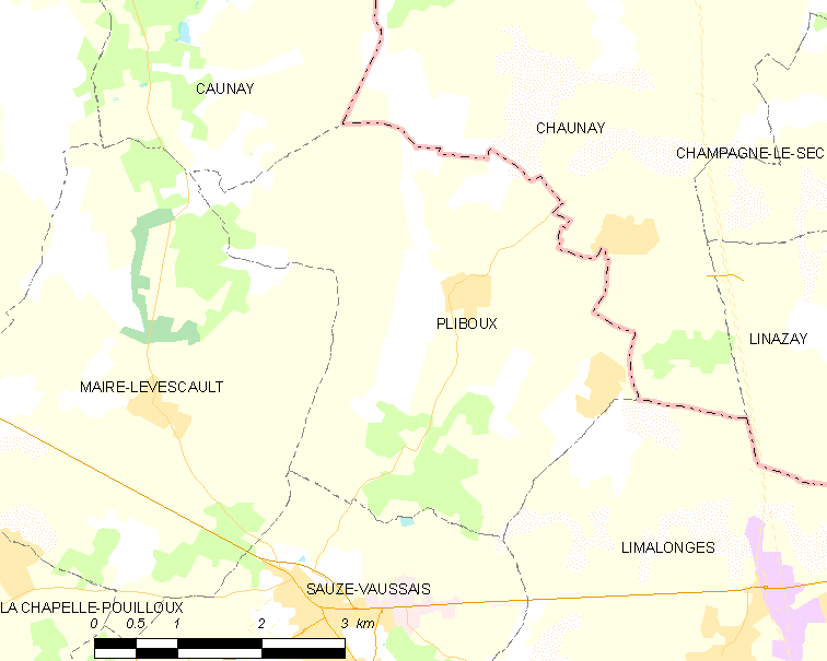 Map of French municipality Pliboux